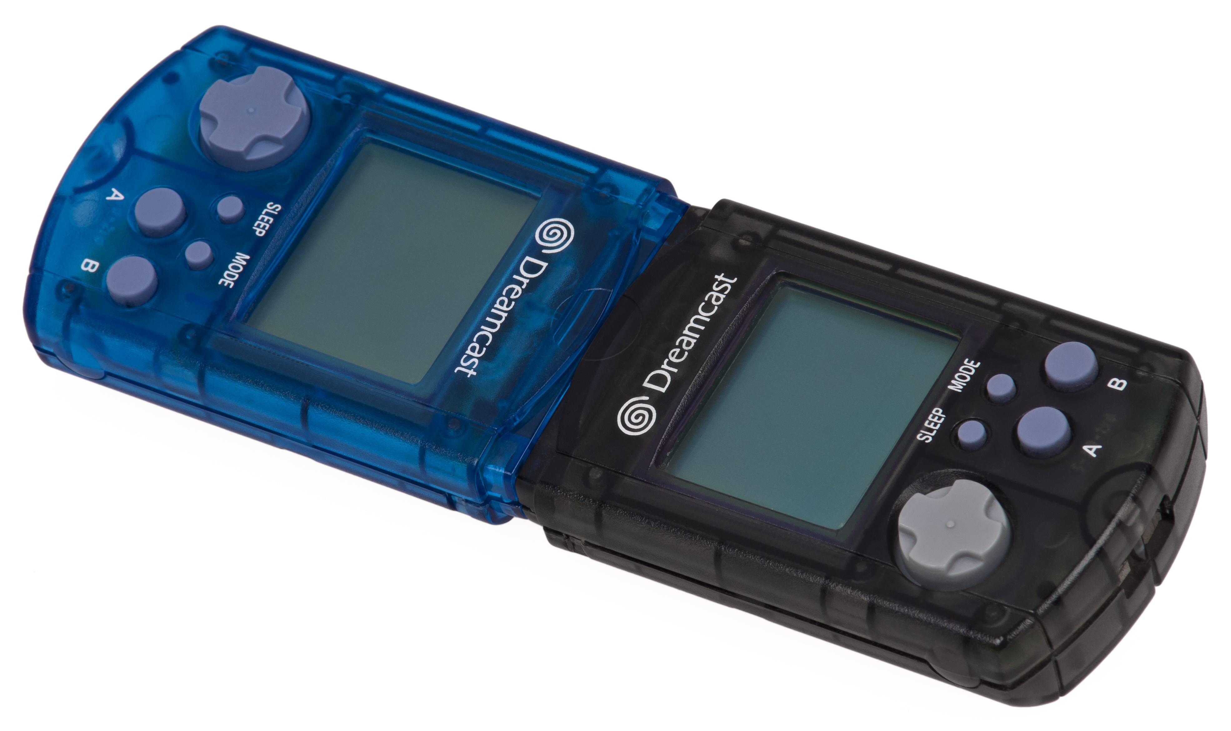 A pair of Dreamcast VMUs hooked together, showing possible file swapping.